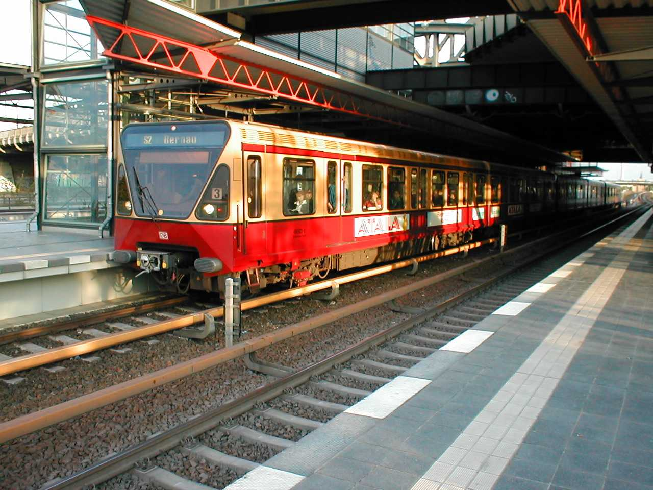 type 480 of the Berlin S-Bahn at Bornholmer Straße